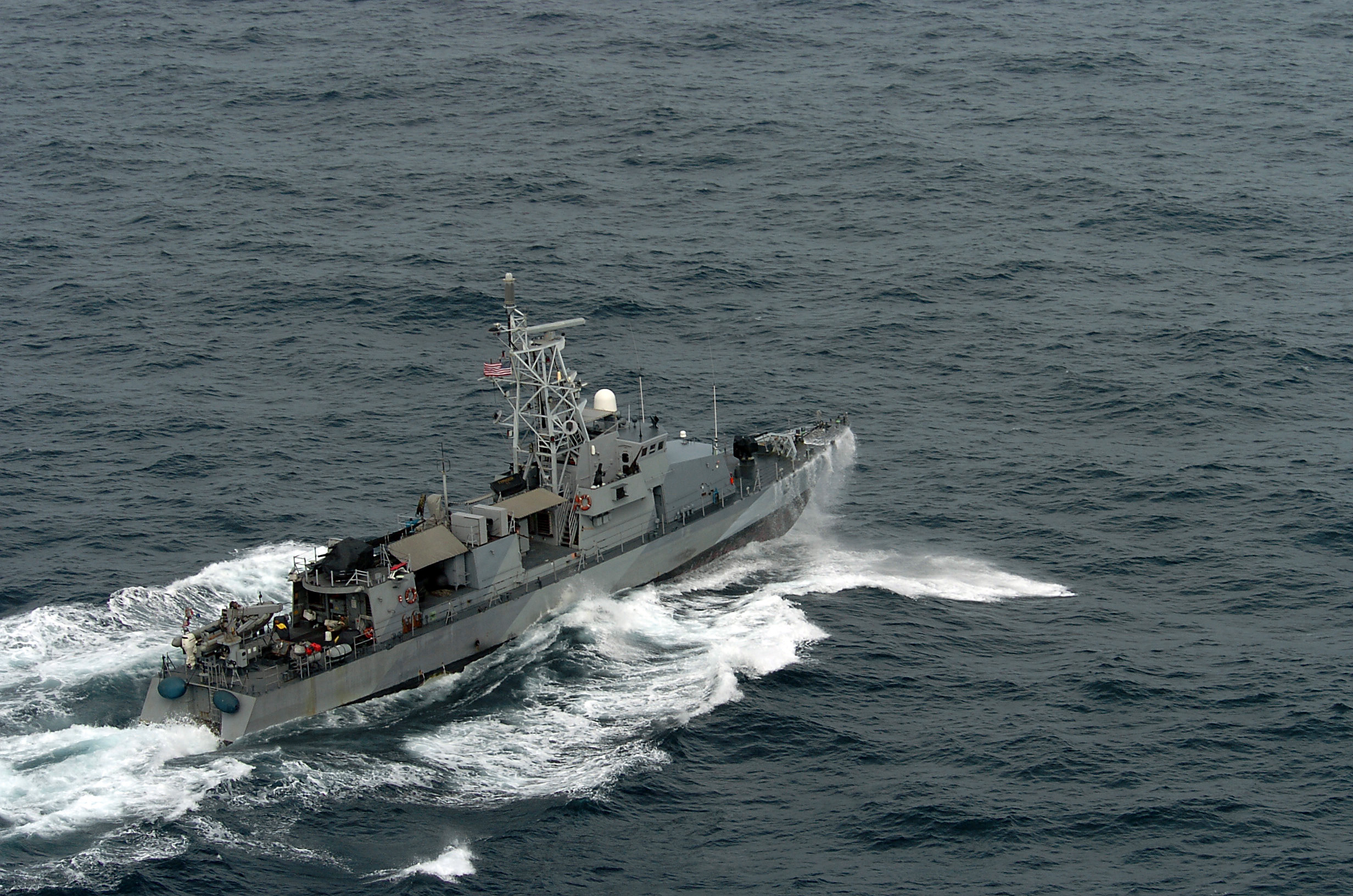 050222-N-1444C-008 Persian Gulf (Feb. 22, 2005) – The Cyclone-class coastal patrol ship USS Typhoon (PC 5) patrols the waters of the Persian Gulf. The patrol craft’s primary mission is coastal patrol and interdiction surveillance. These ships also provide full mission support for Navy SEALs and other special operations forces.